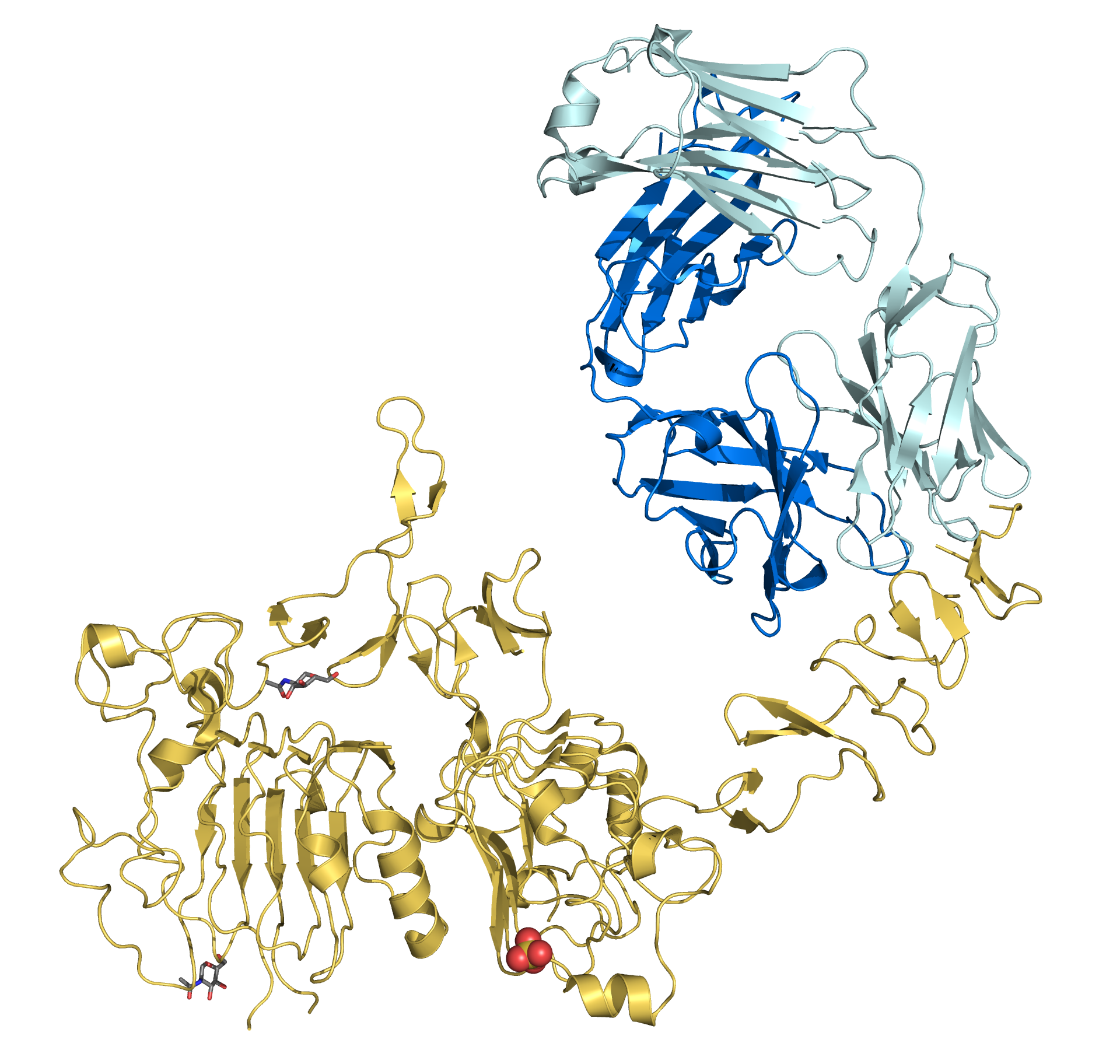 Ribbon diagram of the Fab fragment of trastuzumab, a monoclonal antibody, bound to the extracellular domain of HER2. Created using Accelrys DS Visualizer Pro 1.6 and GIMP. Legend Trastuzumab Fab fragment, heavy chain Trastuzumab Fab fragment, light chain HER2, extracellular domain